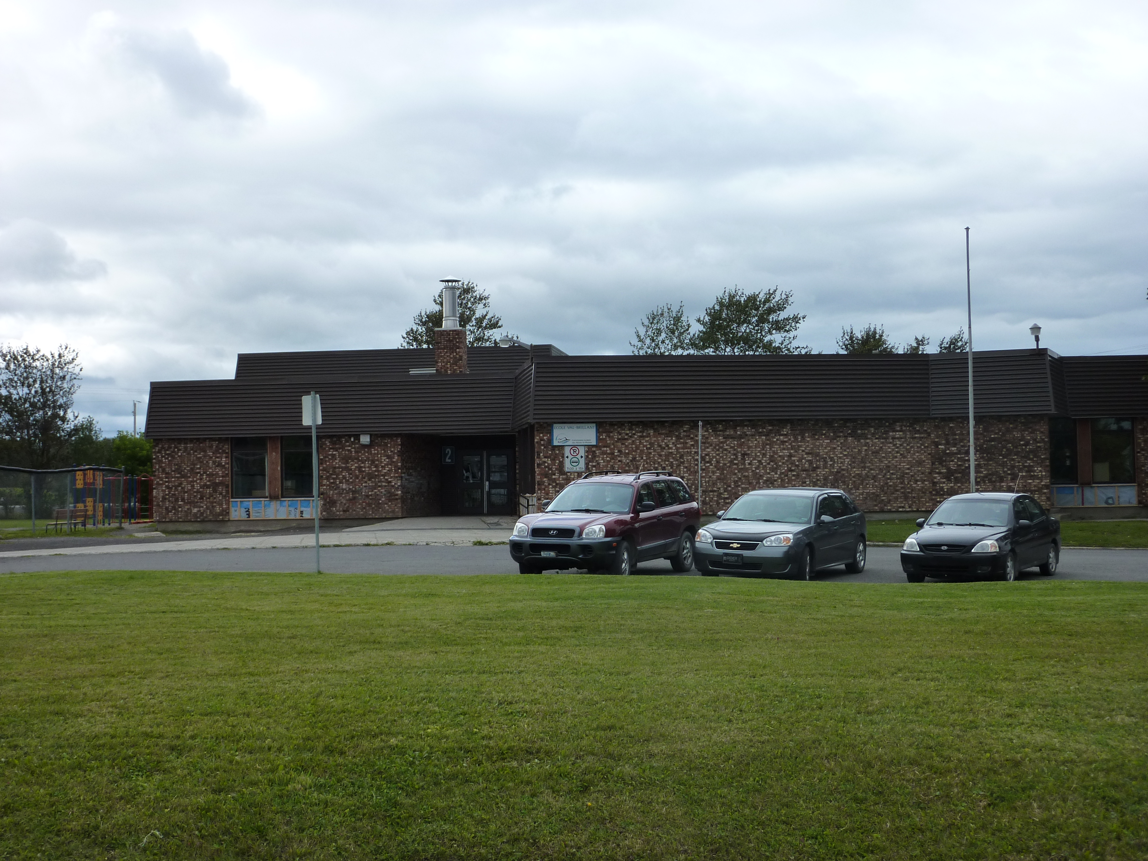 Elementary school of Val-Brillant, Qc